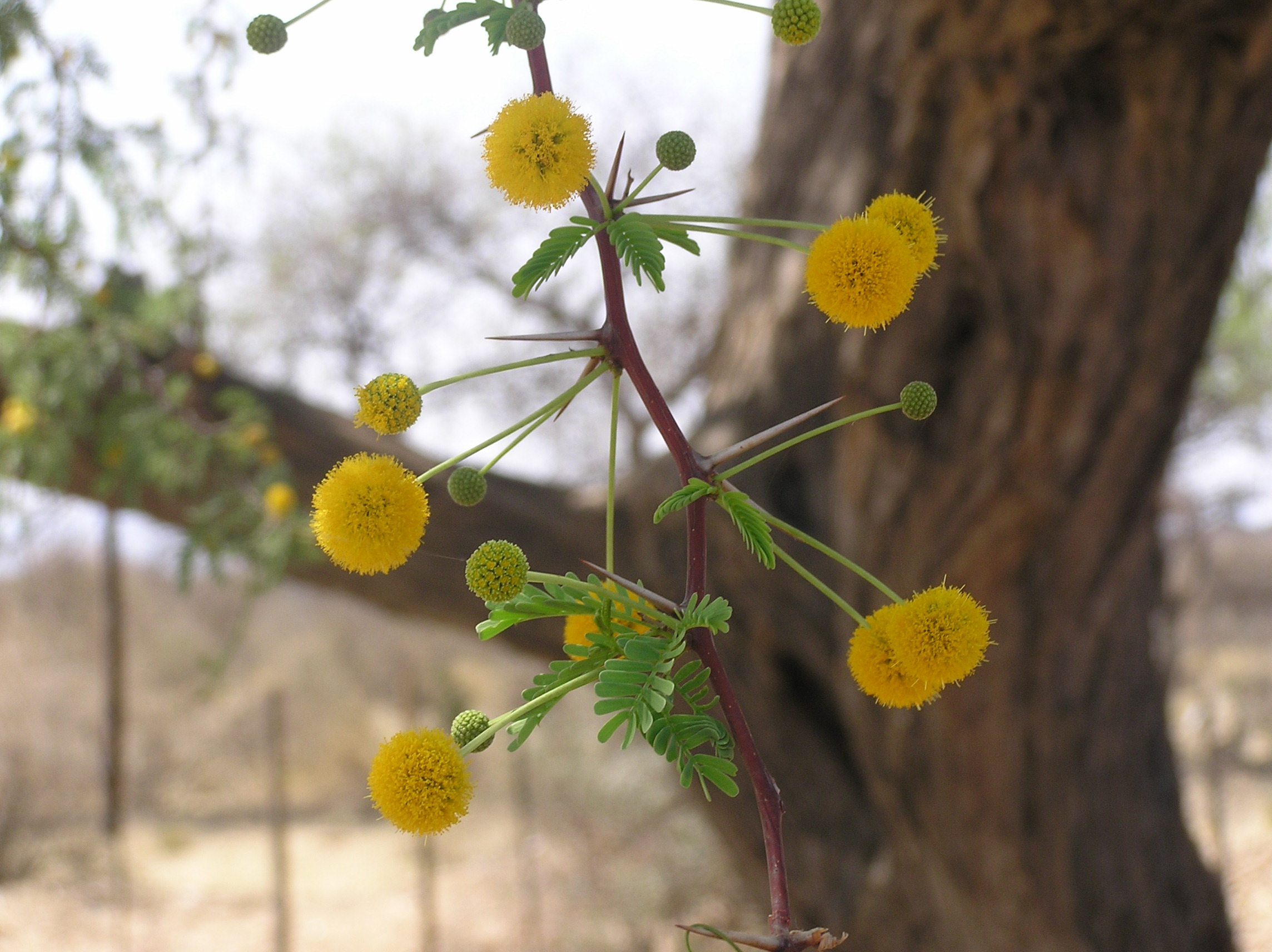 Thorntree (Acacia erioloba), Camel Thorn, Sossusvlei, Namibia